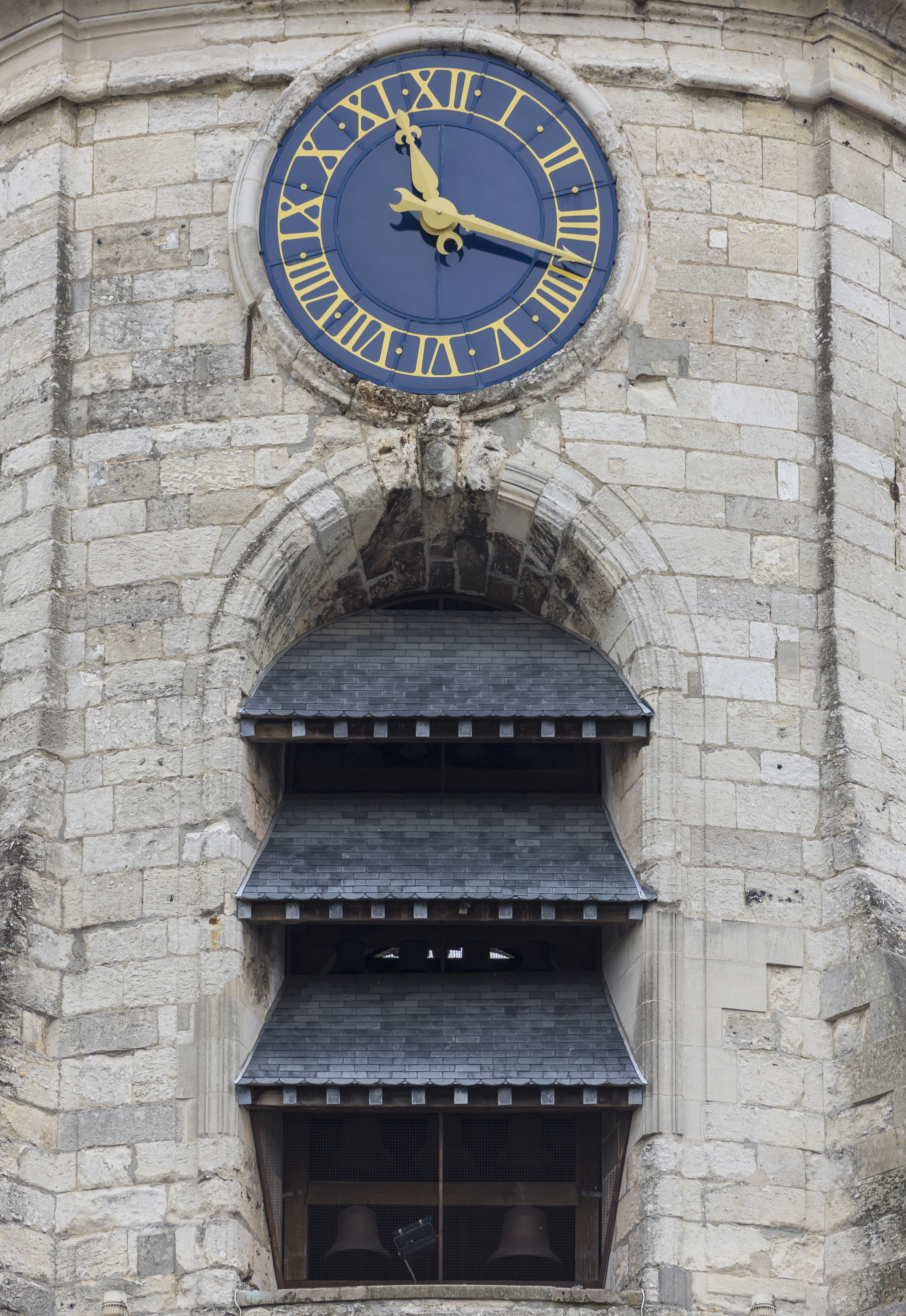 Amiens, France: Detail of the Belfry of Amiens